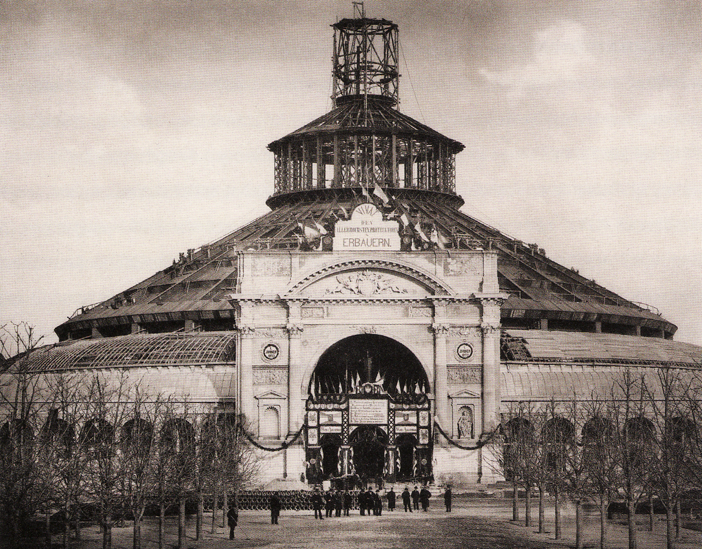 Main Entrance of the Rotunde with topping-out decoration, Expo 1873